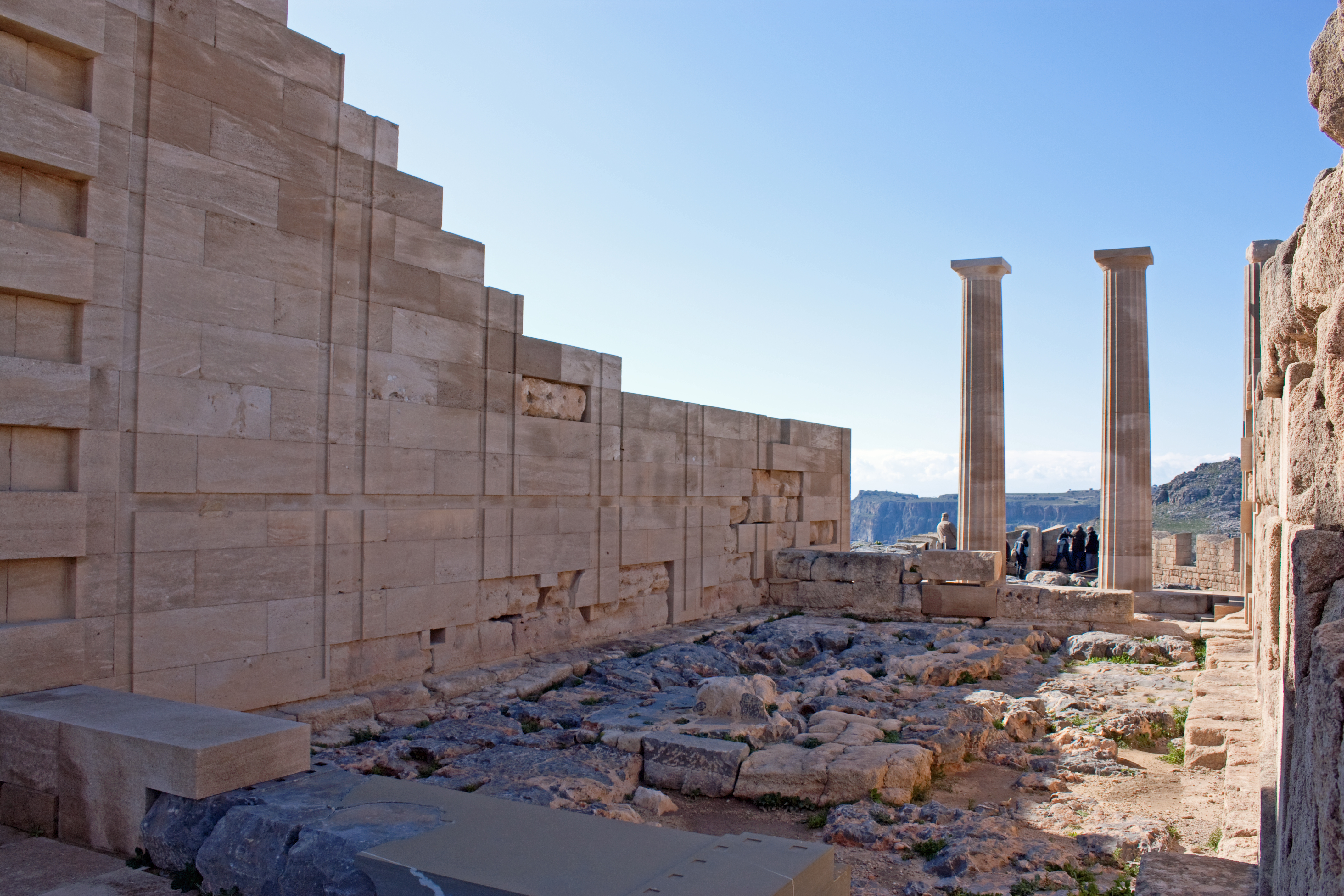 Interior of the Temple of Athena Lindia from the north end.